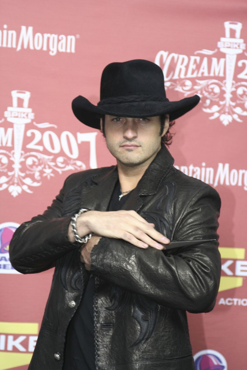 American director Robert Rodriguez. Taken at the 2007 Scream Awards.